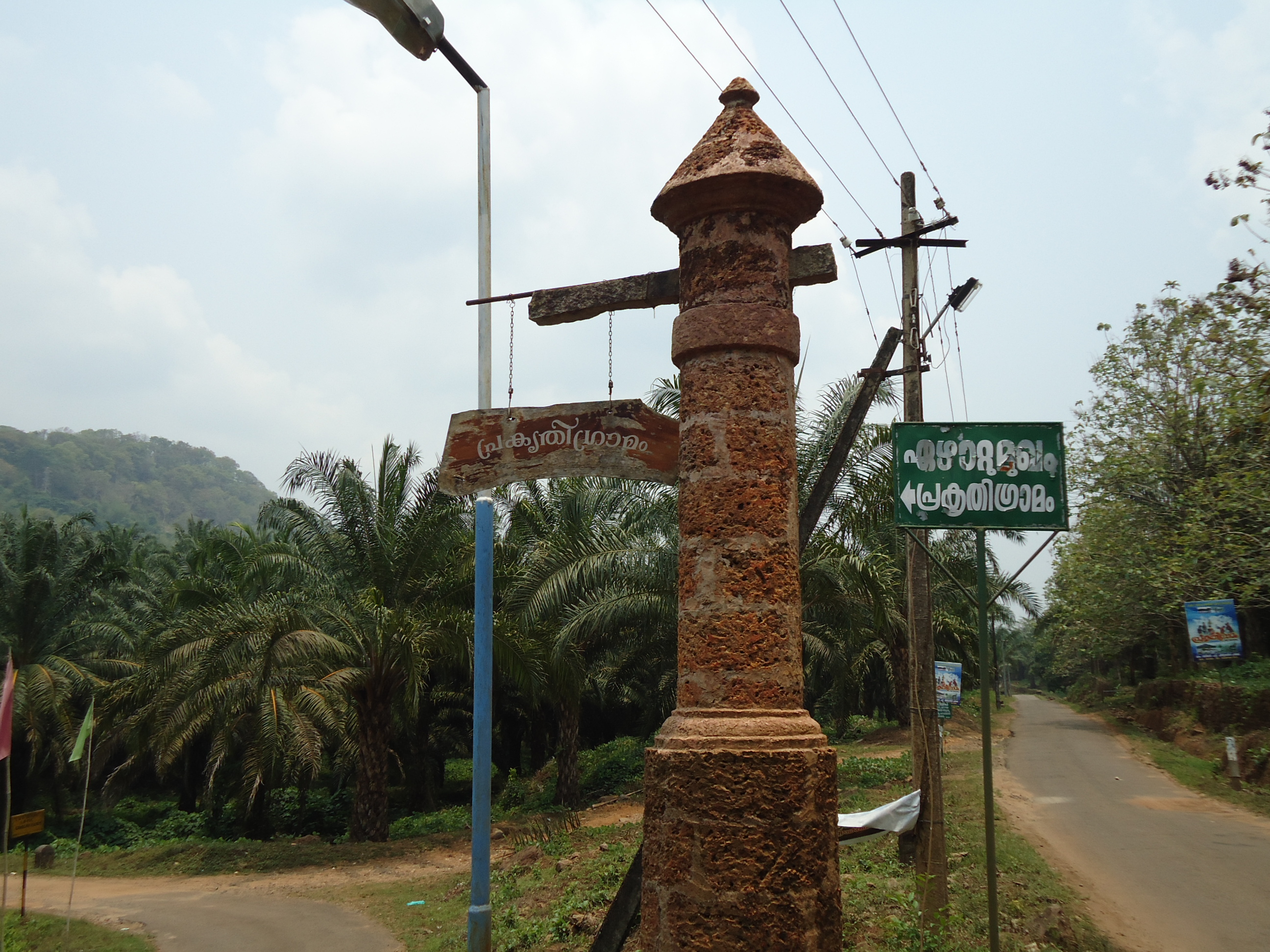 Ezhattumugham Prakrithigramam Sign Board